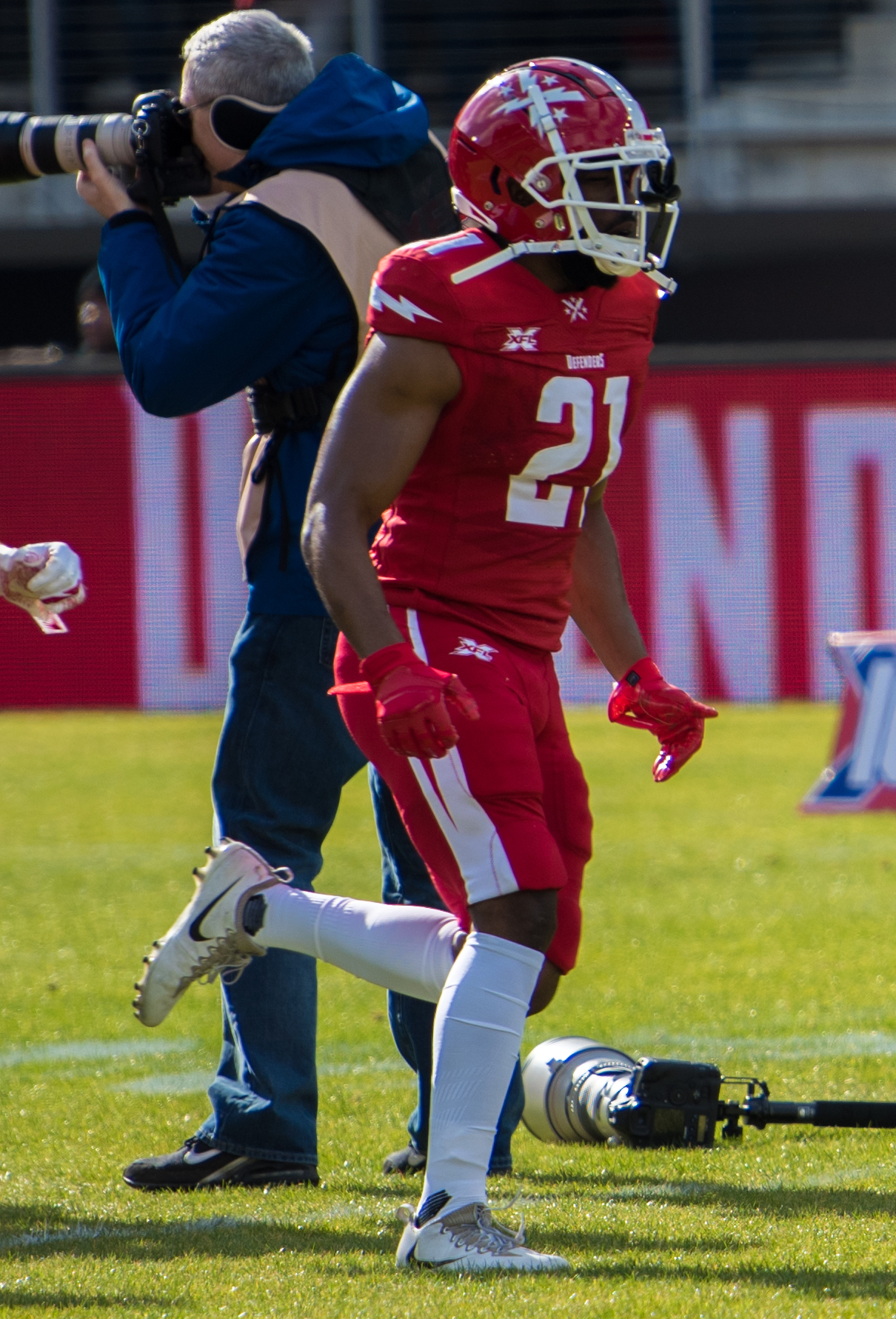 Prior to the Seattle Dragons and D.C. Defenders game in the opening to the XFL's football season, February 8, 2020 at the Audi Stadium, Washington, D.C. (U.S. Army photos by Sgt. Nicholas T. Holmes)